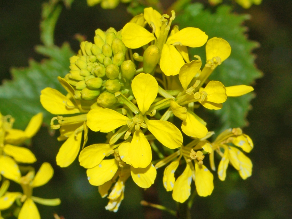 Sinapis arvensis - S. Agata Fossili, Alessandria, Italy